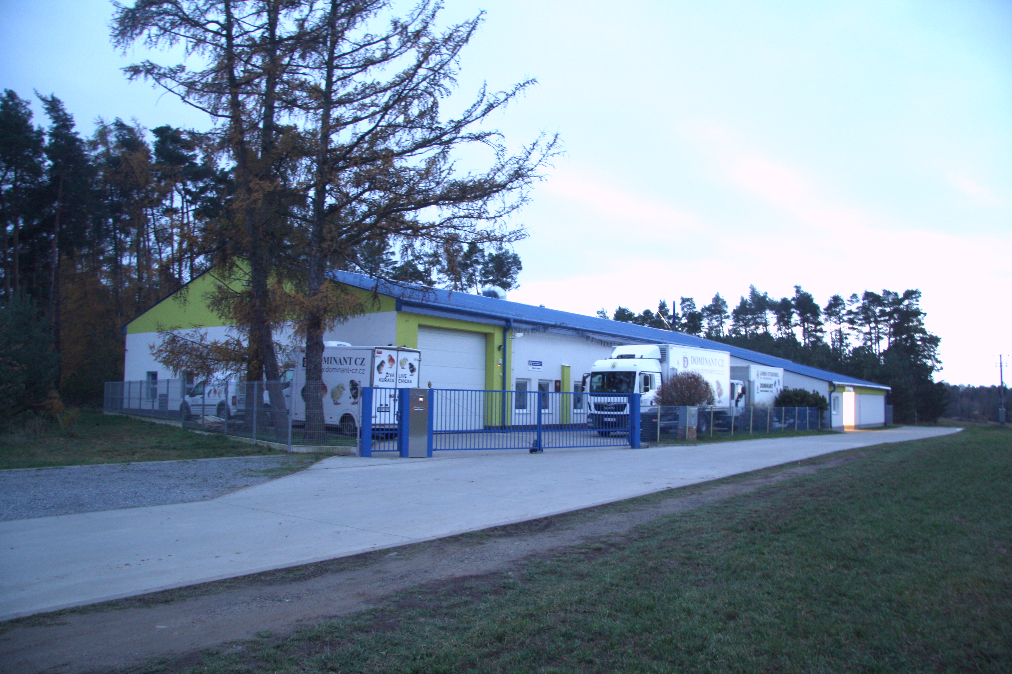 Building of Dominant CZ, Studenec 183 in Studenec, Třebíč District.